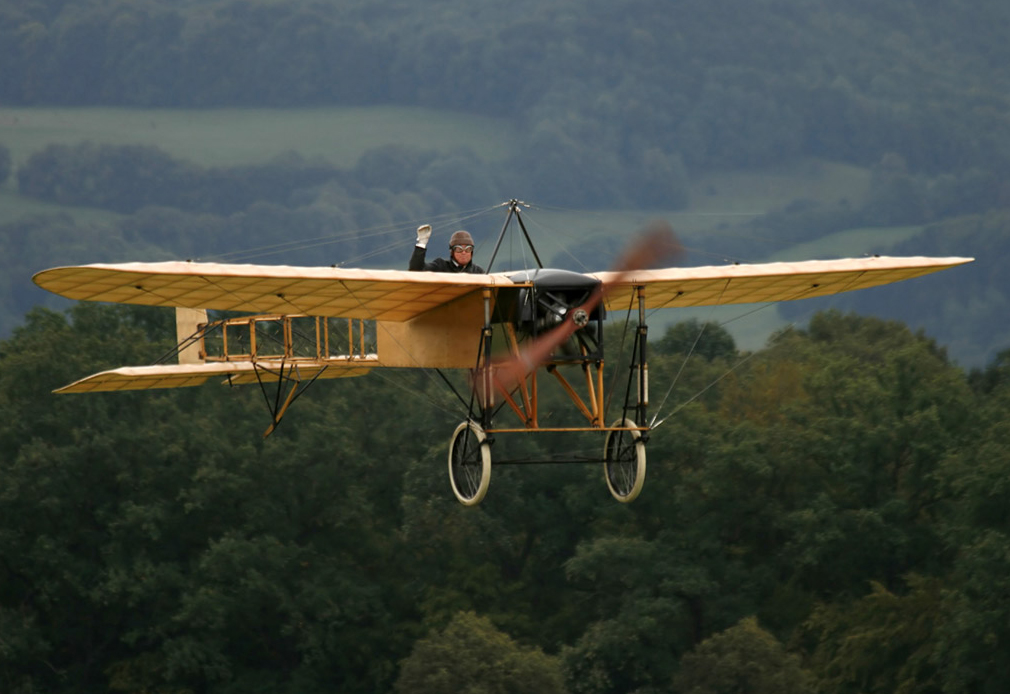 Mikael Carlson owns and flies two of these Blériot XI’s, orginally built by AETA - AB Enoch Thulins Aeroplanfabrik - under the name Thulin A. The first one was found by Mikael in a barn in the late 80’s, disassembled but complete. Mikael restored it to flying condition, took off for the first time in 1991 and have been flying it regularly every year since then. This plane has not only participated in a number of air displays and film productions all over the world but it is also the plane in which Mikael recreated the crossing of the English Channel in 1999, exactly 90 years after Louis Blériot! (